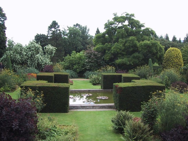 Pond in Crathes Castle